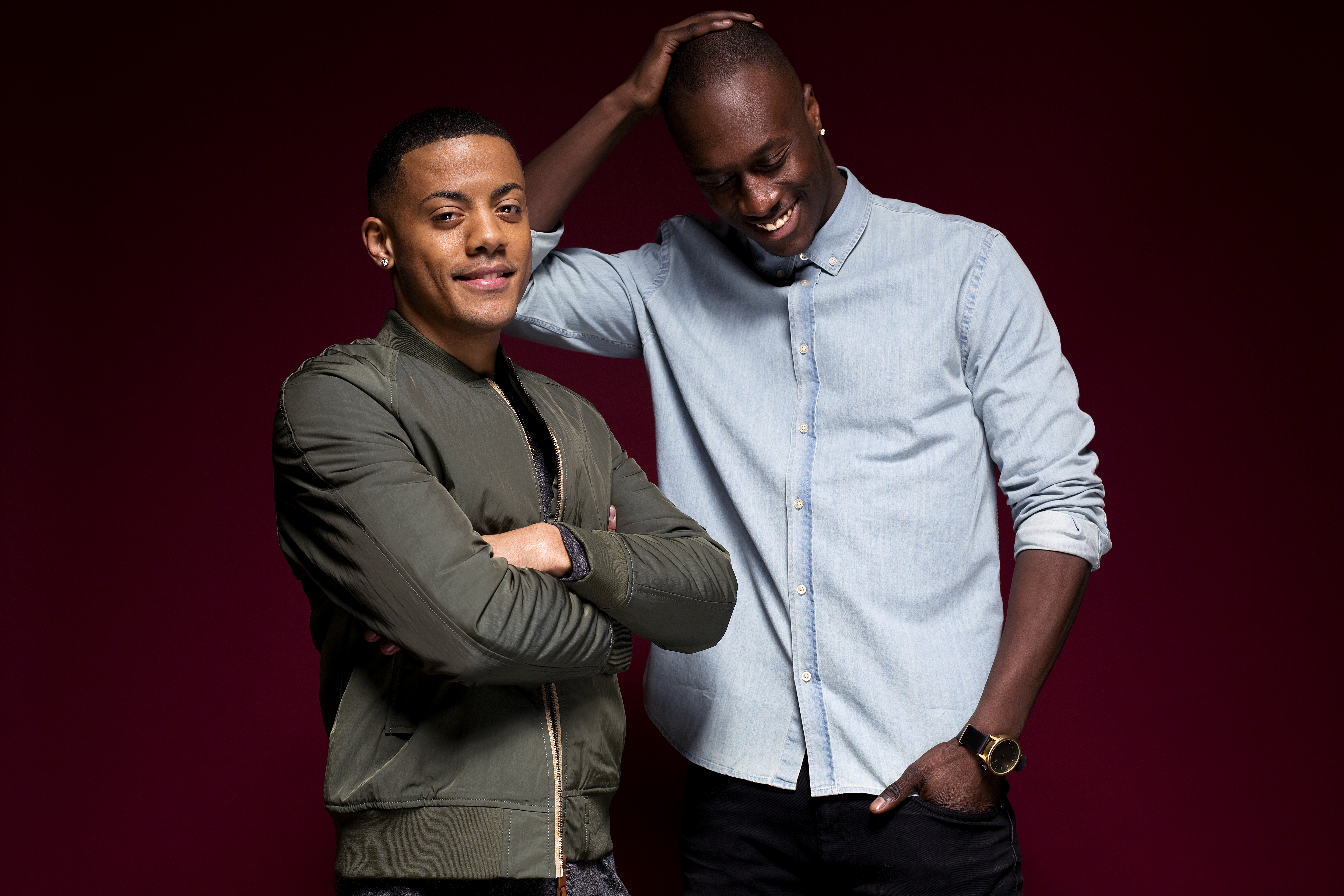 Image of Nico and Vinz will be used in the info box of their wiki page.